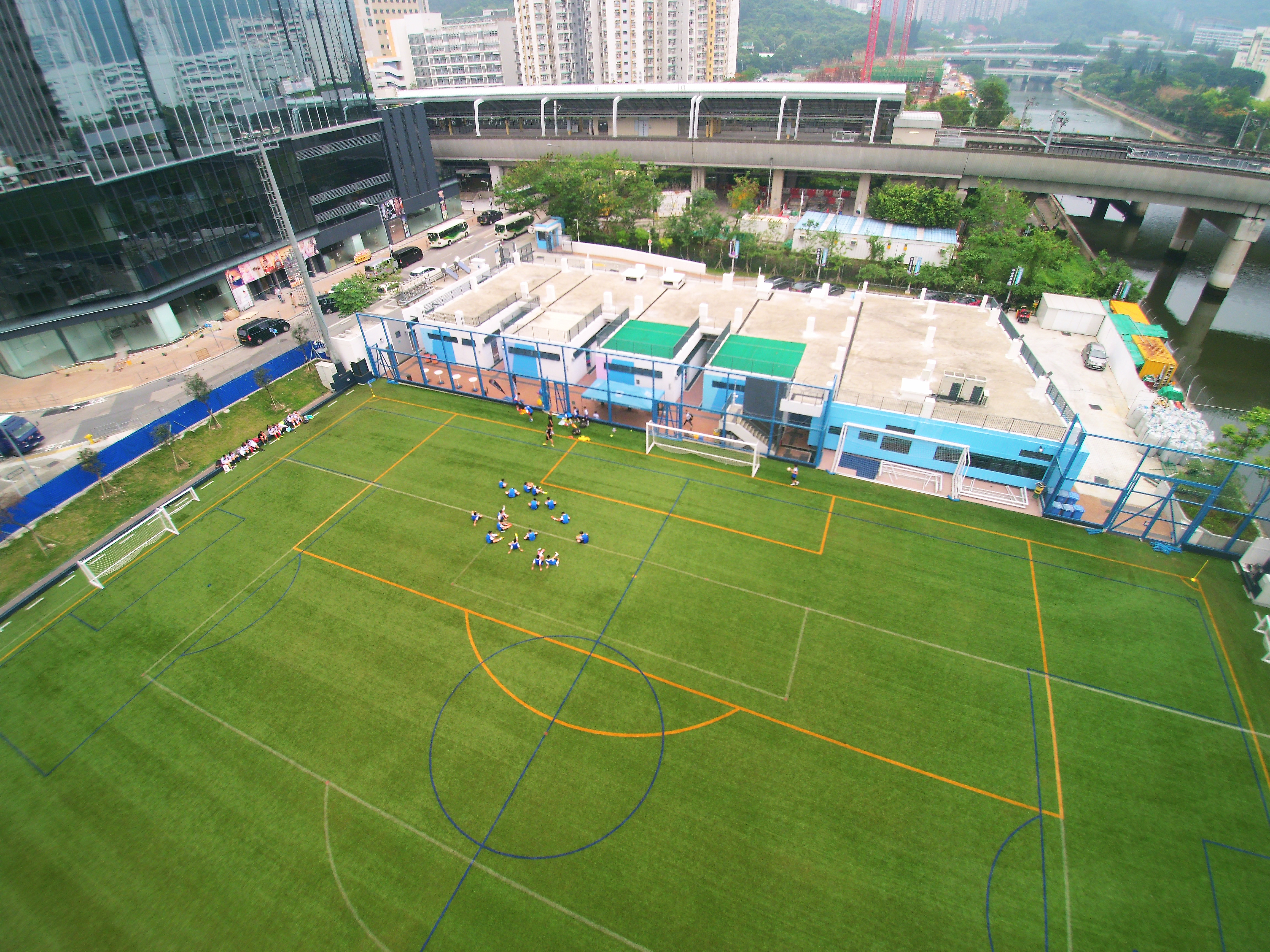 pitch1